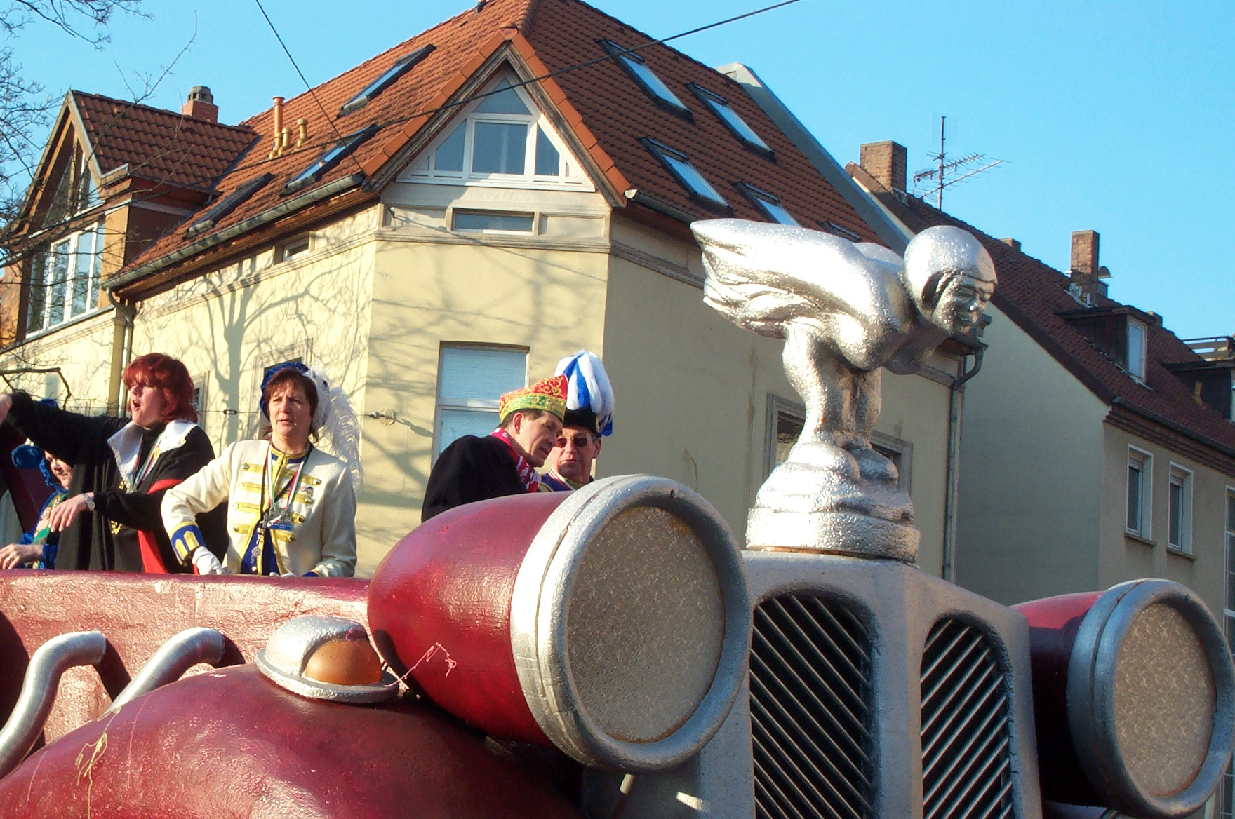 Mayor Gert Hoffmann from Braunschweig (Germany) in 2005.